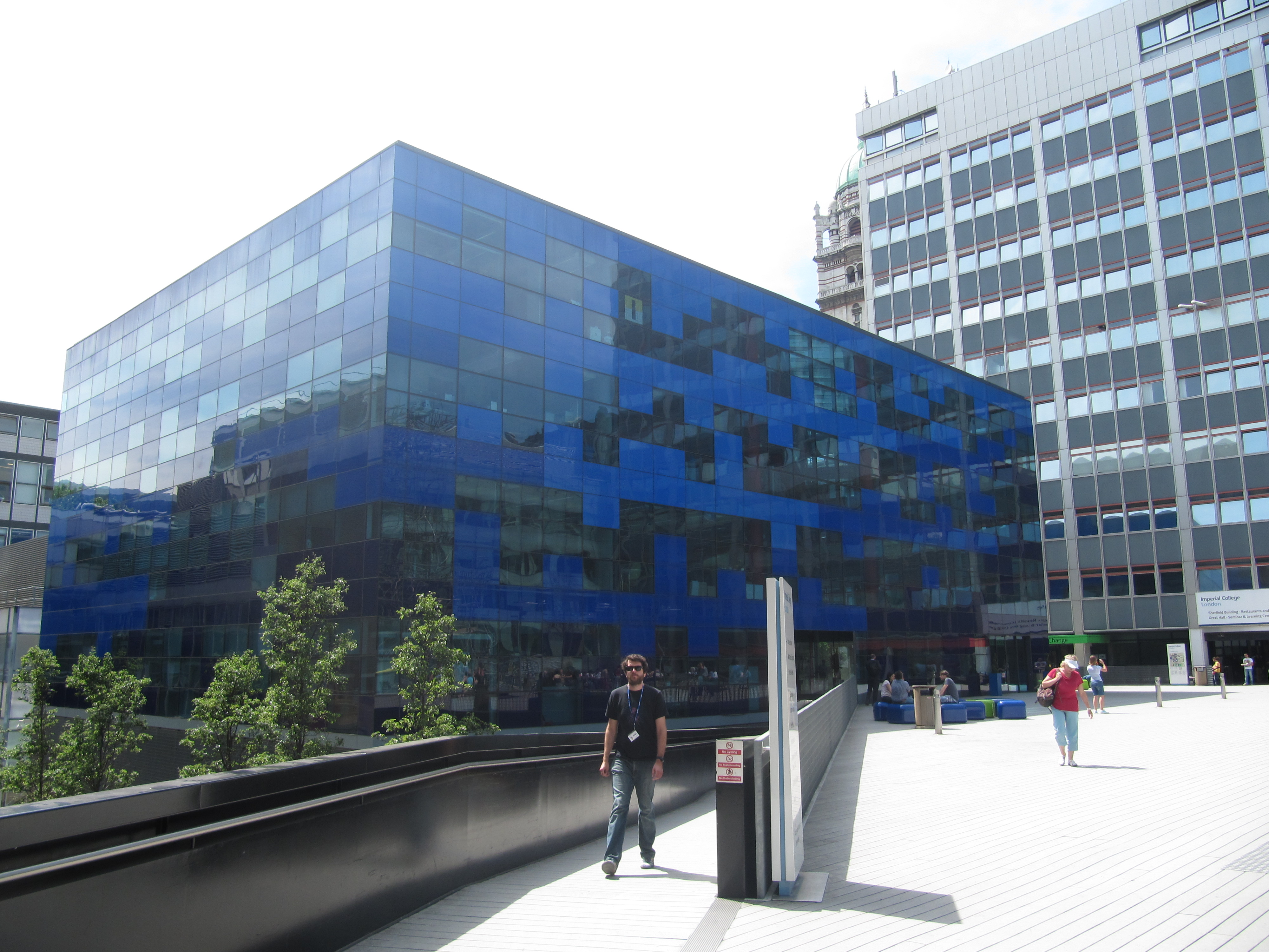 The Faculty Building of Imperial College London, designed by Norman Foster